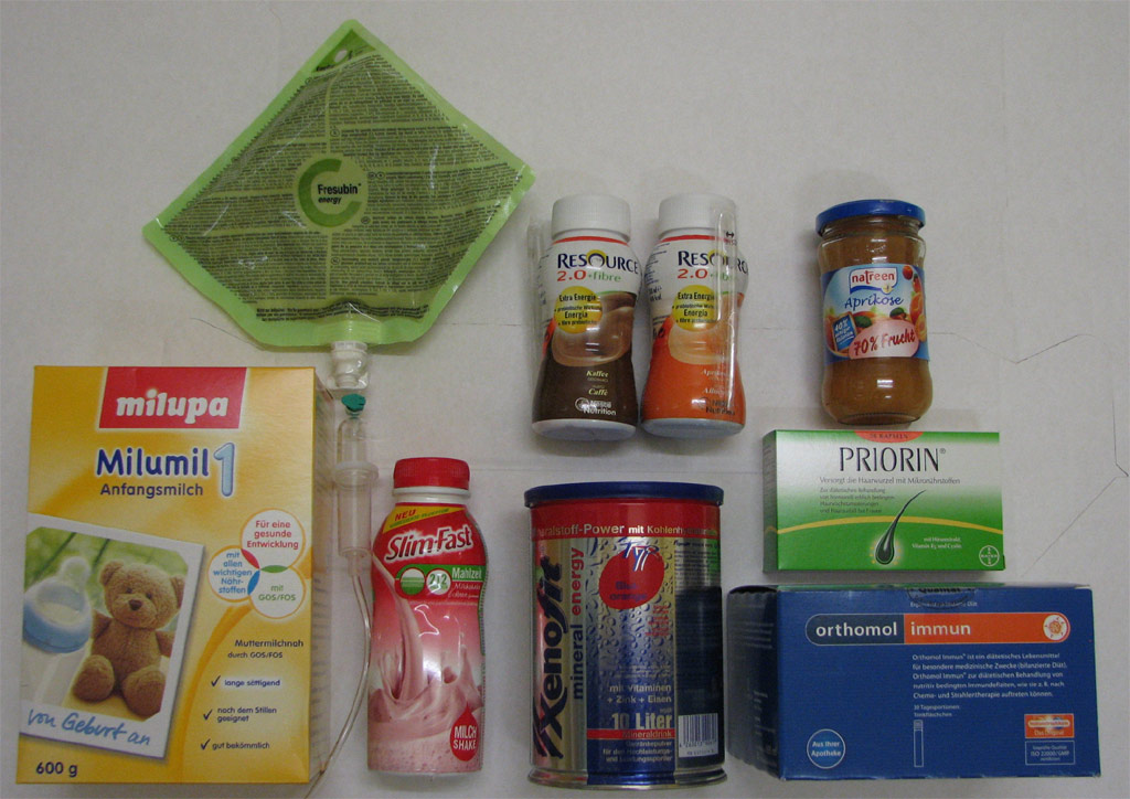 dietary food sold in Germany under the legally product-category "diätetische Lebensmittel"; only samples, not rated!